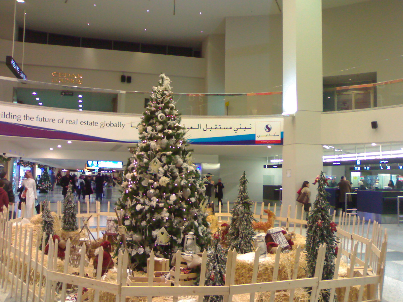 Photo de la duty free de l'aéroport international de beyrouth/Duty Free @ Beirut International airport